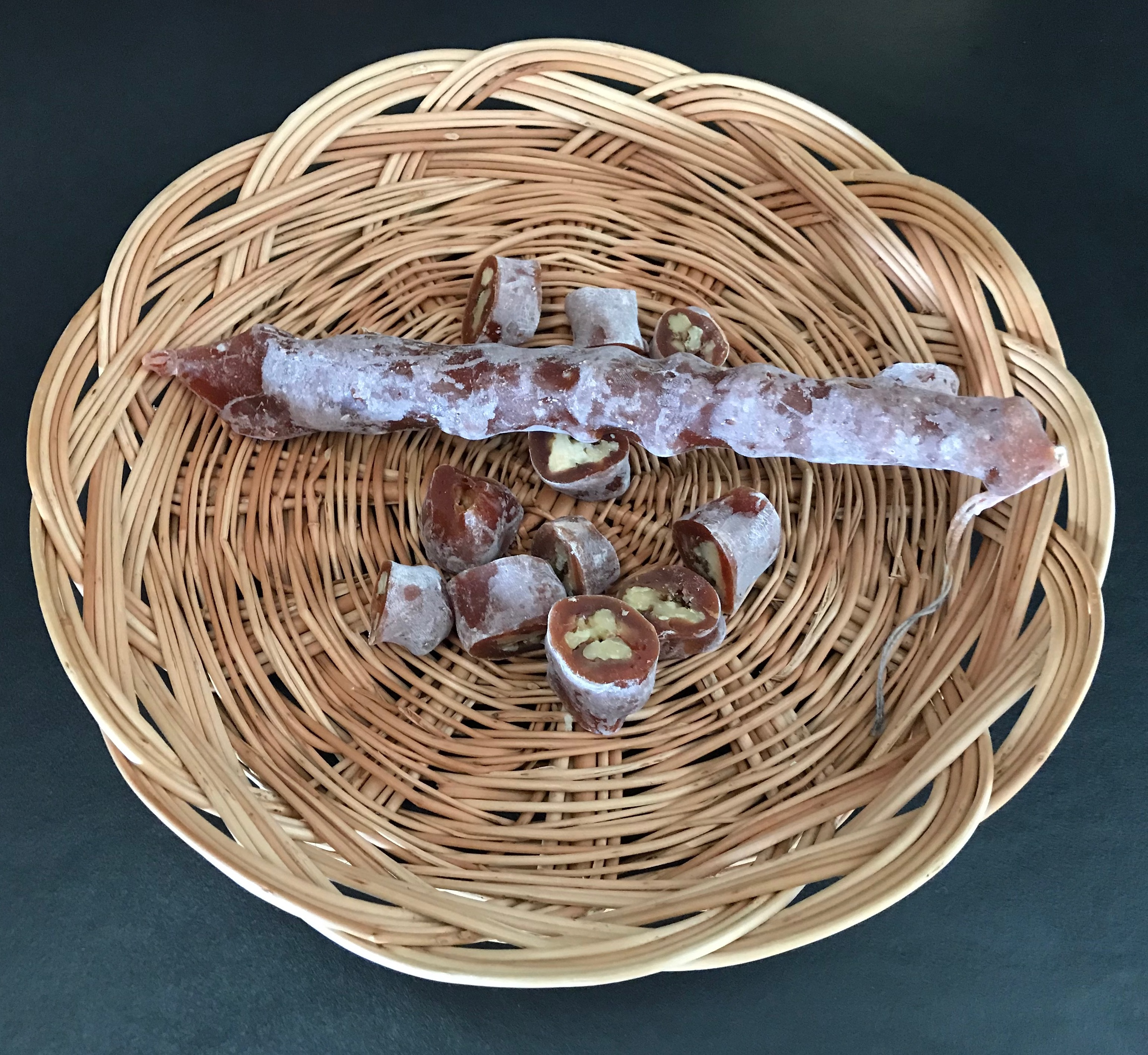 Churchkhela